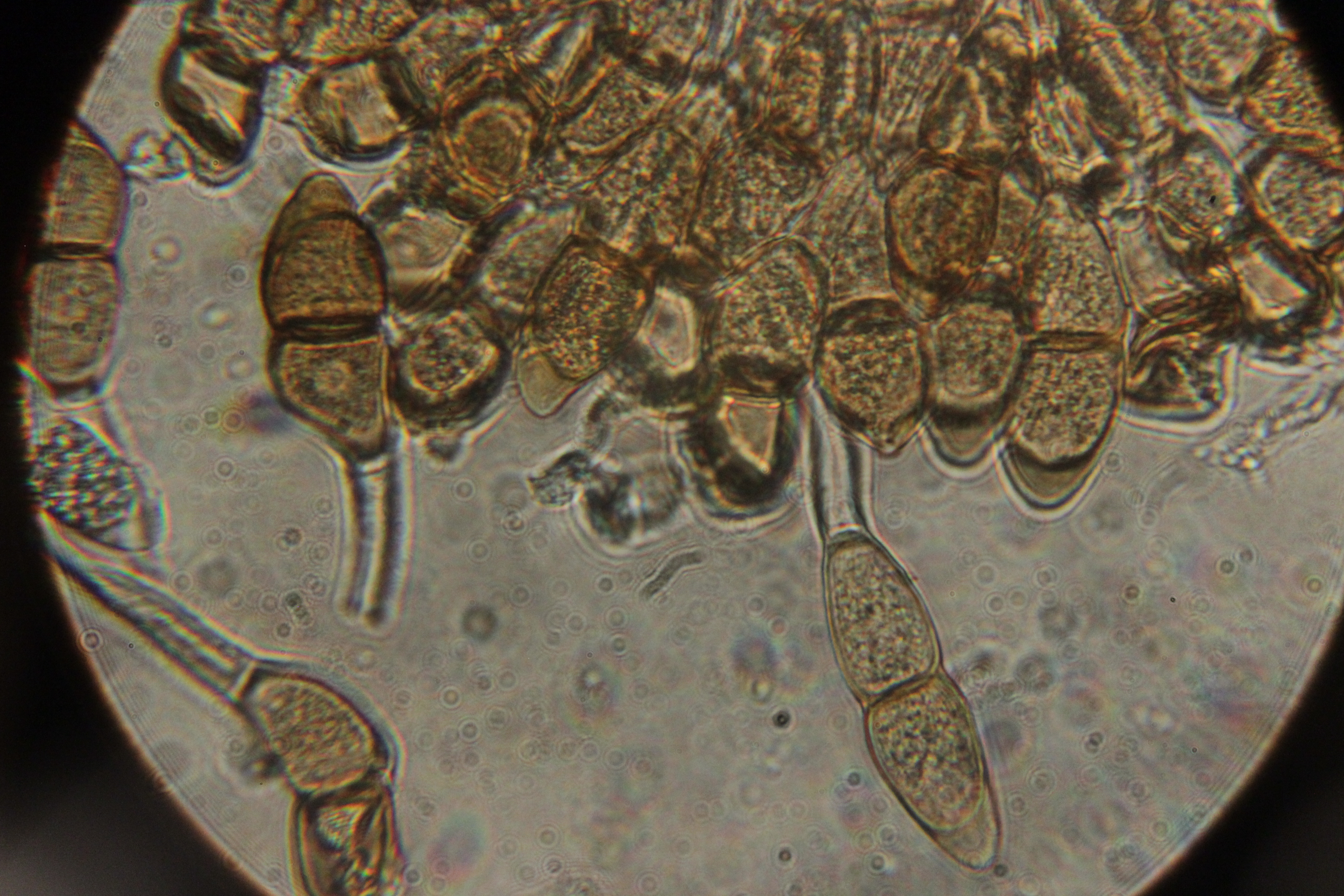 Puccinia arenariae on Wood Stitchwort - Stellaria nemorum